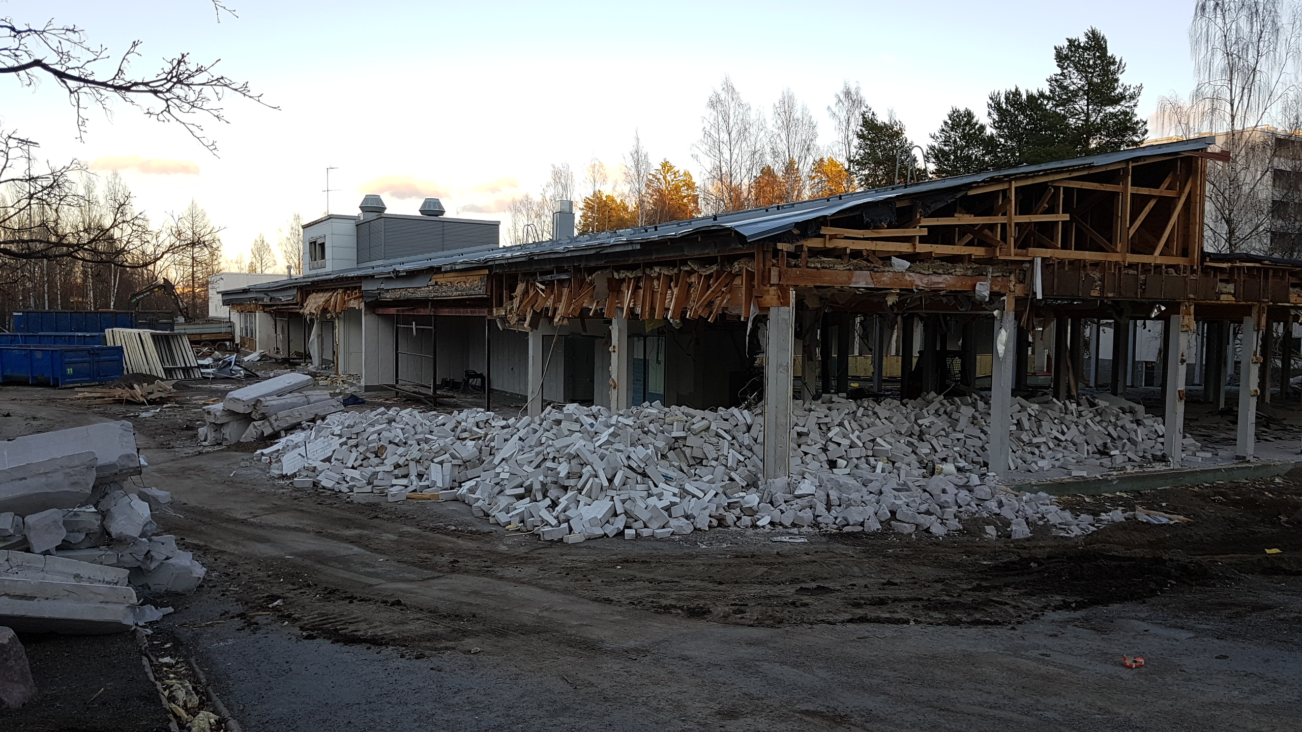 Osittain purettu Kortepohjan koulu. Ulkoseinät ja osa katosta on purettu.